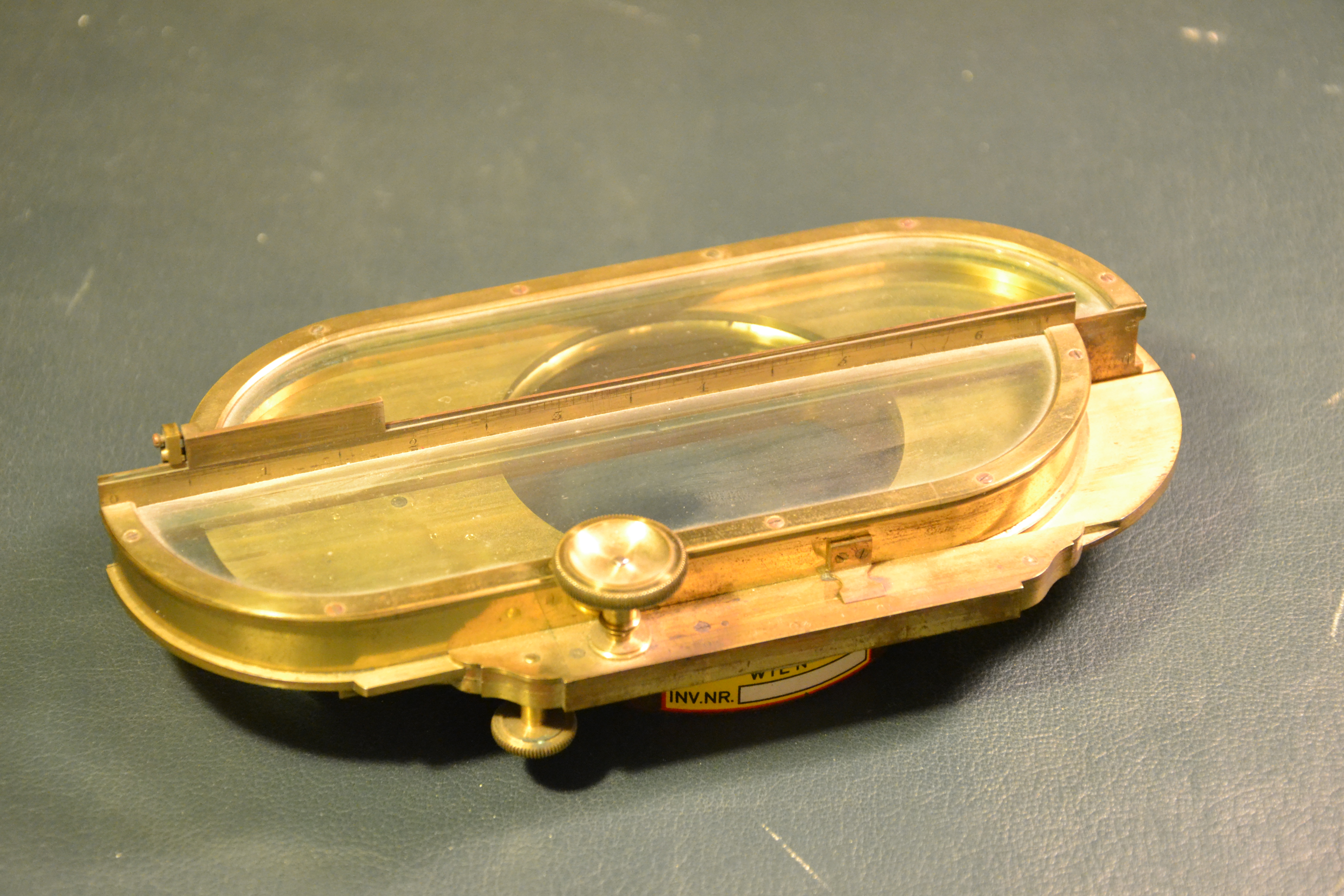 Heliometer lens, Dollond, London, around 1790. 16 x 6.8 cm (University Observatory Vienna). The lens was placed in front of a refractor of 6.7 cm aperture.